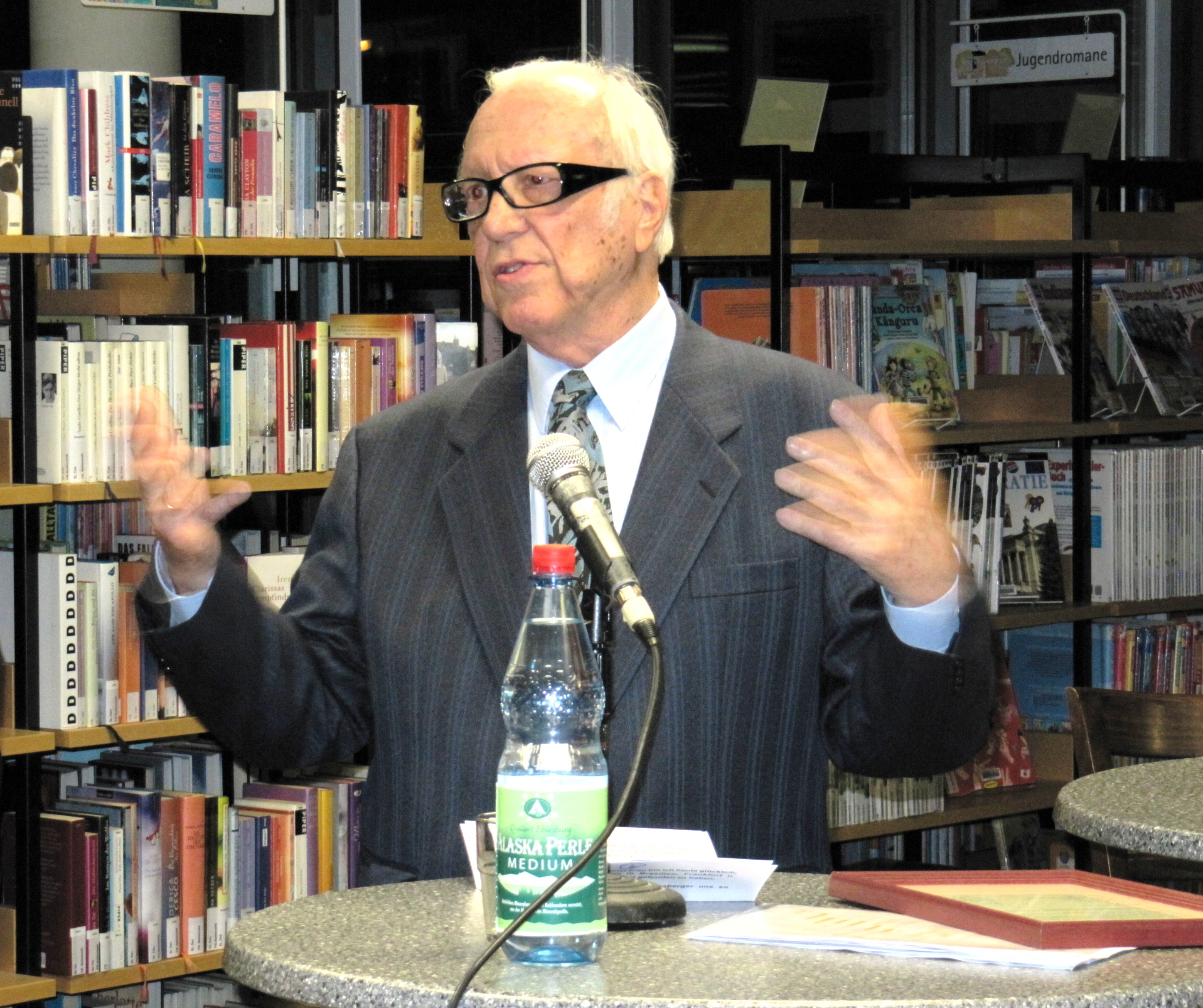 Mr. Heinz F. Dressel